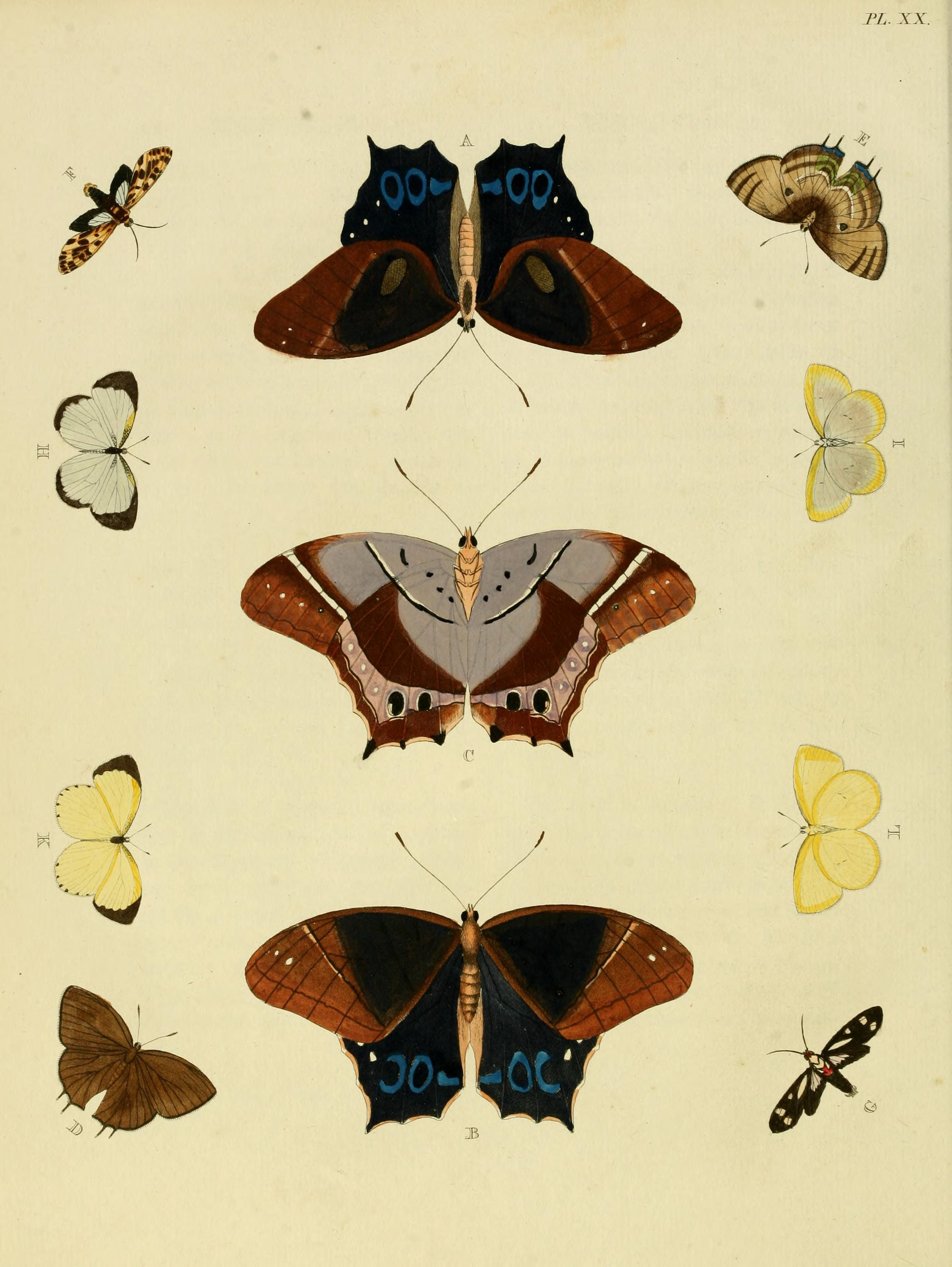 Plate XX A (male), B, C (female): "(Papilio) Philoctetes" ( = Antirrhea philoctetes), see Funet D, E: "(Papilio) Hemon" ( = Theritas hemon), see Funet Female. Male on plate 51 F, G: "(Sphinx) Marica" ( = Eucereon marica), see Funet. Iconotype? H, I: "(Papilio) Agave" ( = Eurema agave), see Funet Iconotype? K, L: "(Papilio) Nise" ( = Eurema nise), see The Global Lepidoptera Names Index, NHM and Funet Iconotype?